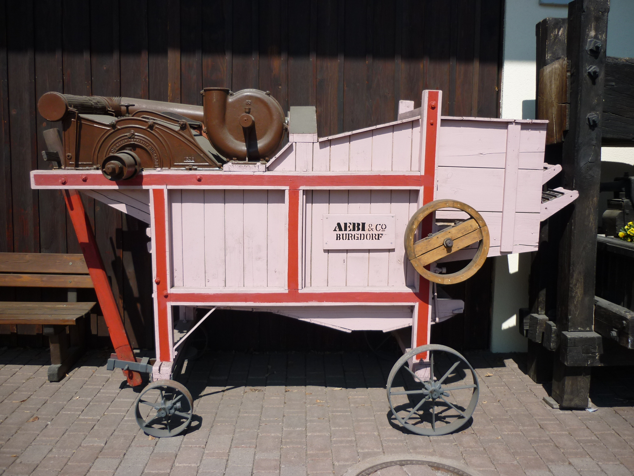 Old Aebi threshing machine, Aebi & Co., Burgdorf, Switzerland; Merenschwand museum